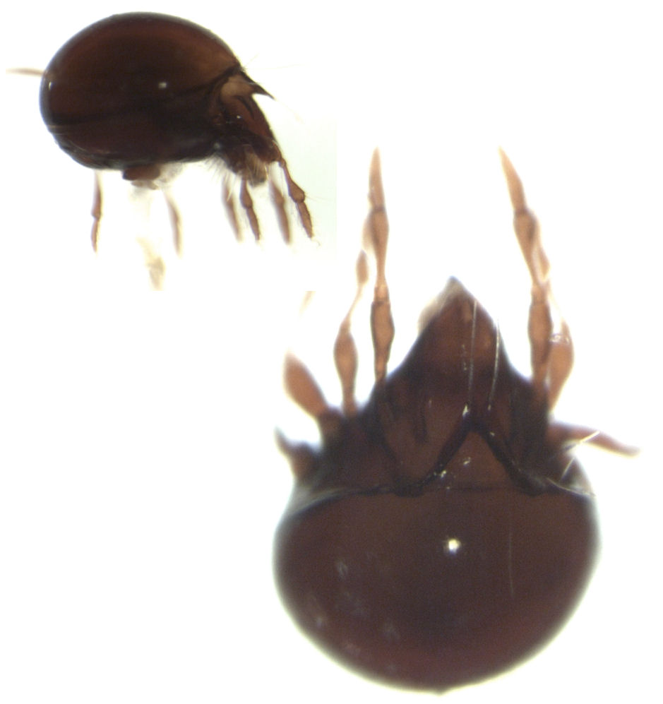 Maorizetes ferox specimen